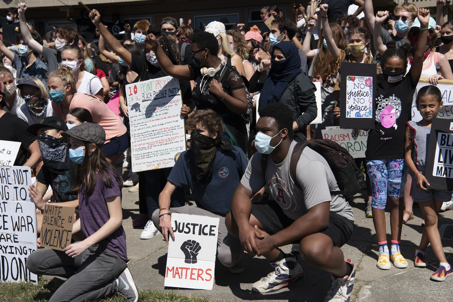 Marin City Black Lives Matter-George Floyd Protest "Its been too long that Marin county has had its knee on Marin City's neck" Marin County, California June 02, 2020 BlackLivesMatter GeorgeFloyd MarinCityProtest PoliceBrutality OurVoiceOurMovement